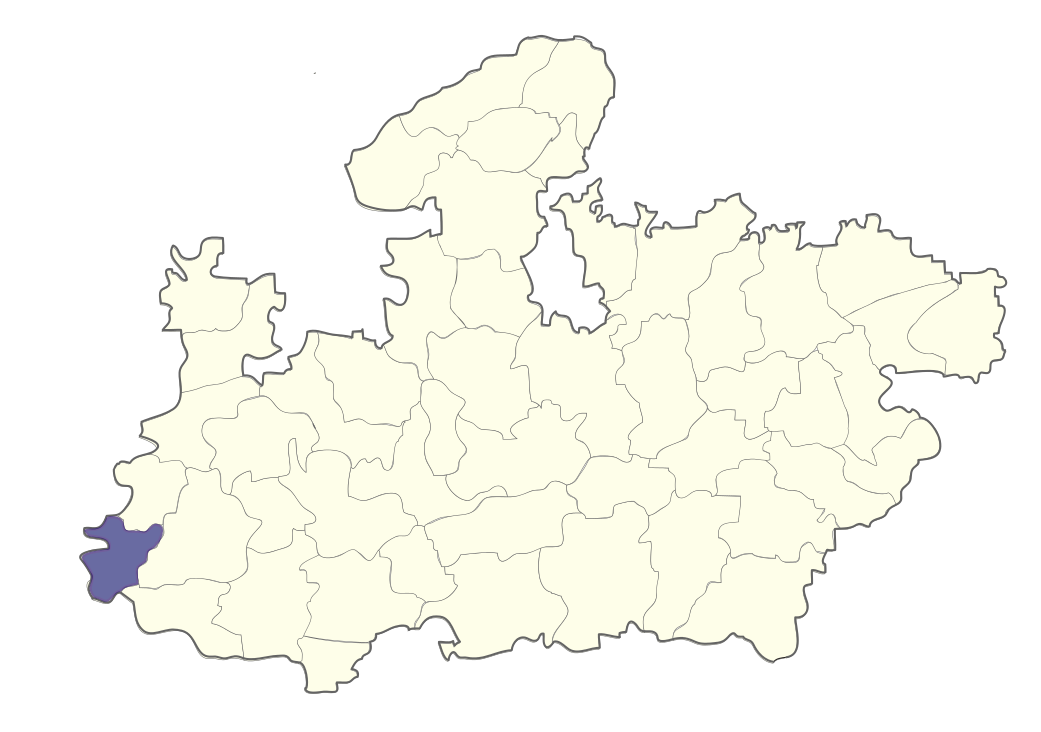 Madhya Pradesh Alirajpur district location